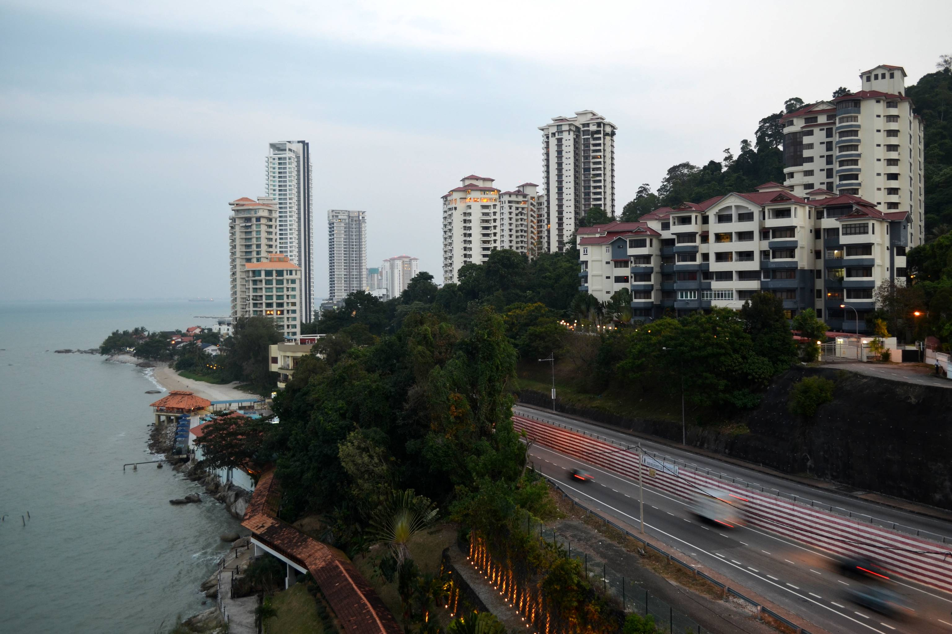 Penang Swimming Club (foreground) and the western part of Tanjung Tokong.